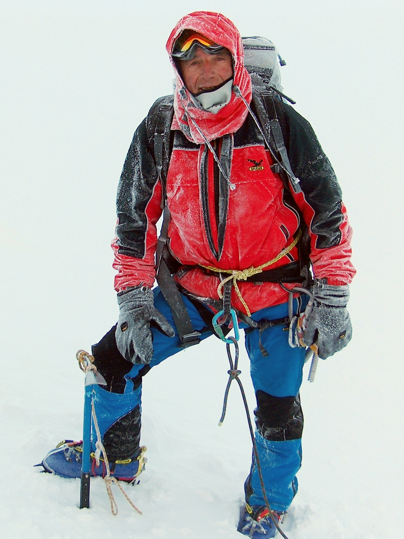 Doychin Vasilev at Catalunyan Saddle, Livingston Island, following the ascent of Mount Friesland during the Tangra 2004/05 expedition. Picture published by the author Lyubomir Ivanov.